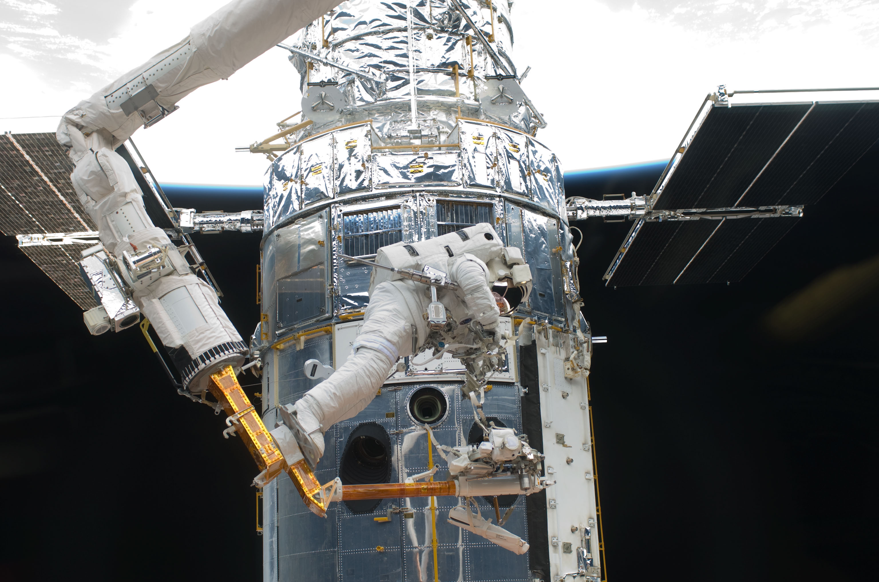 Perched on the end of the Canadian-built remote manipulator system, astronaut Andrew Feustel, mission specialist, performs work on the Hubble Space Telescope as the first of five STS-125 spacewalks kicks off a week's work on the orbiting observatory. Feustel, teamed with astronaut John Grunsfeld (out of frame), will join the veteran spacewalker on two of the remaining four sessions of extravehicular activity later in the mission.